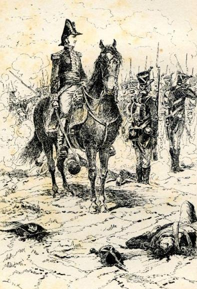 Marshal Louis-Nicolas Davout at the Battle of Auerstaedt, în 1806.